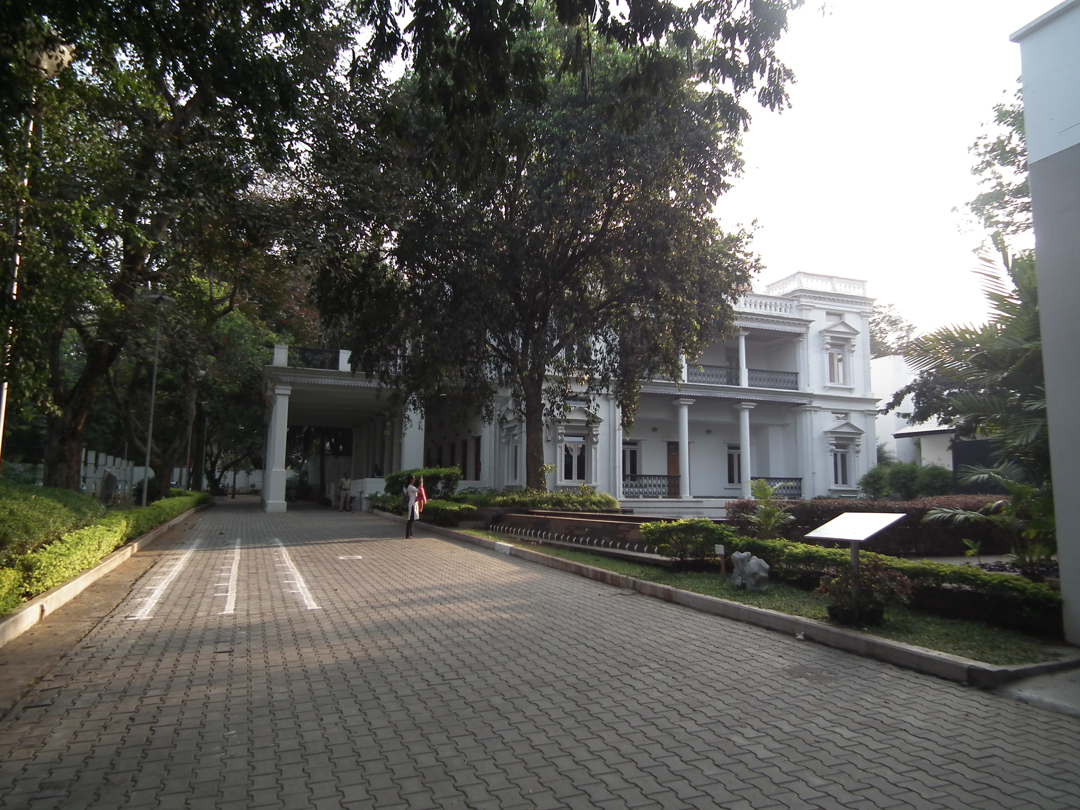 A Snap from National Gallery of Modern Art, Bangalore